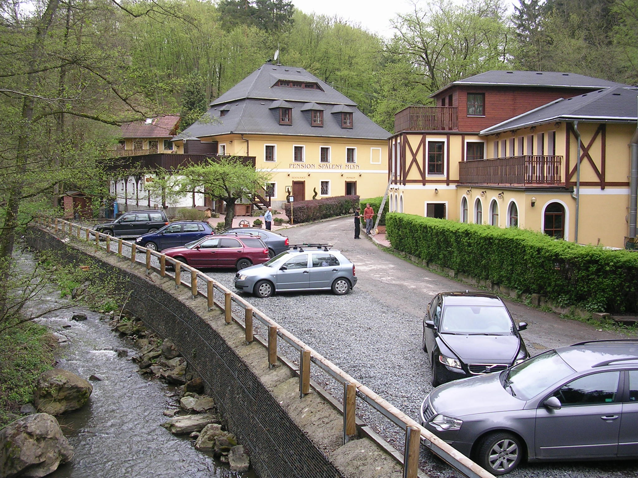 Líšnice, Central Bohemian Region, the Czech Republic. Bojovský Creek and Spálený mlýn.